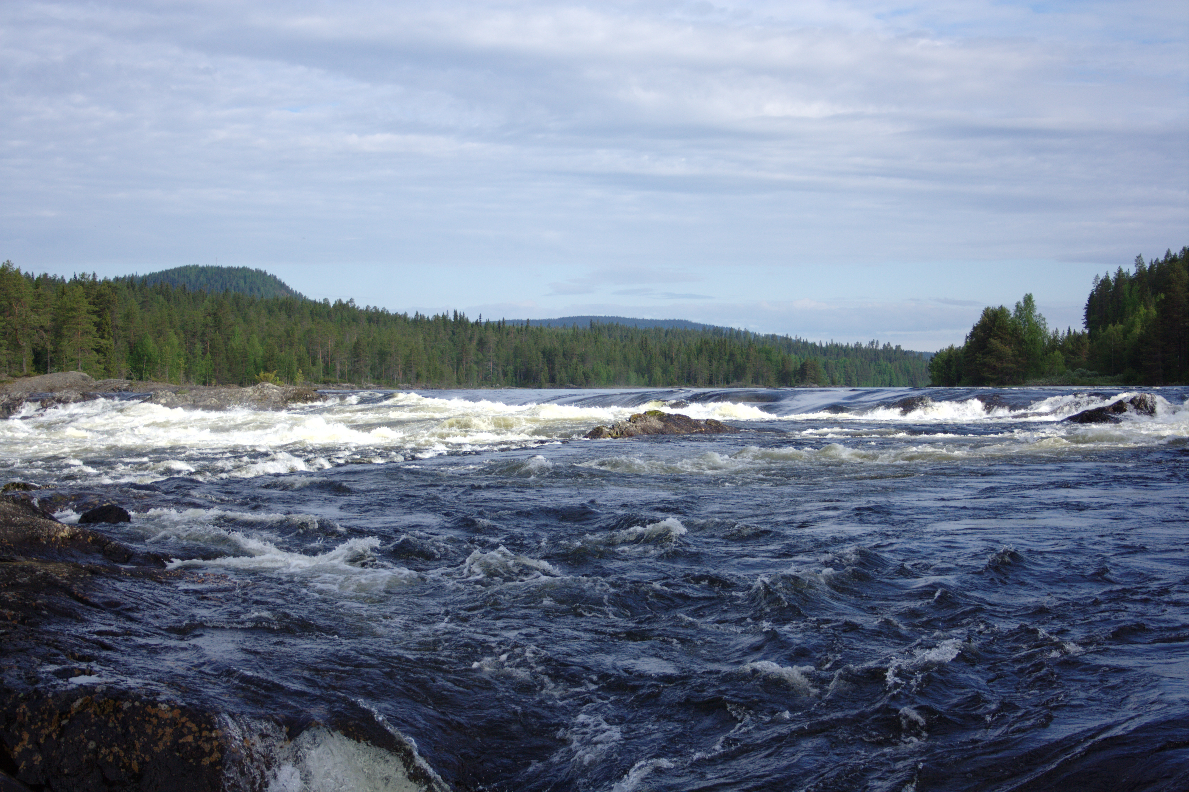 The nature reserve of Vindel-Storforsen